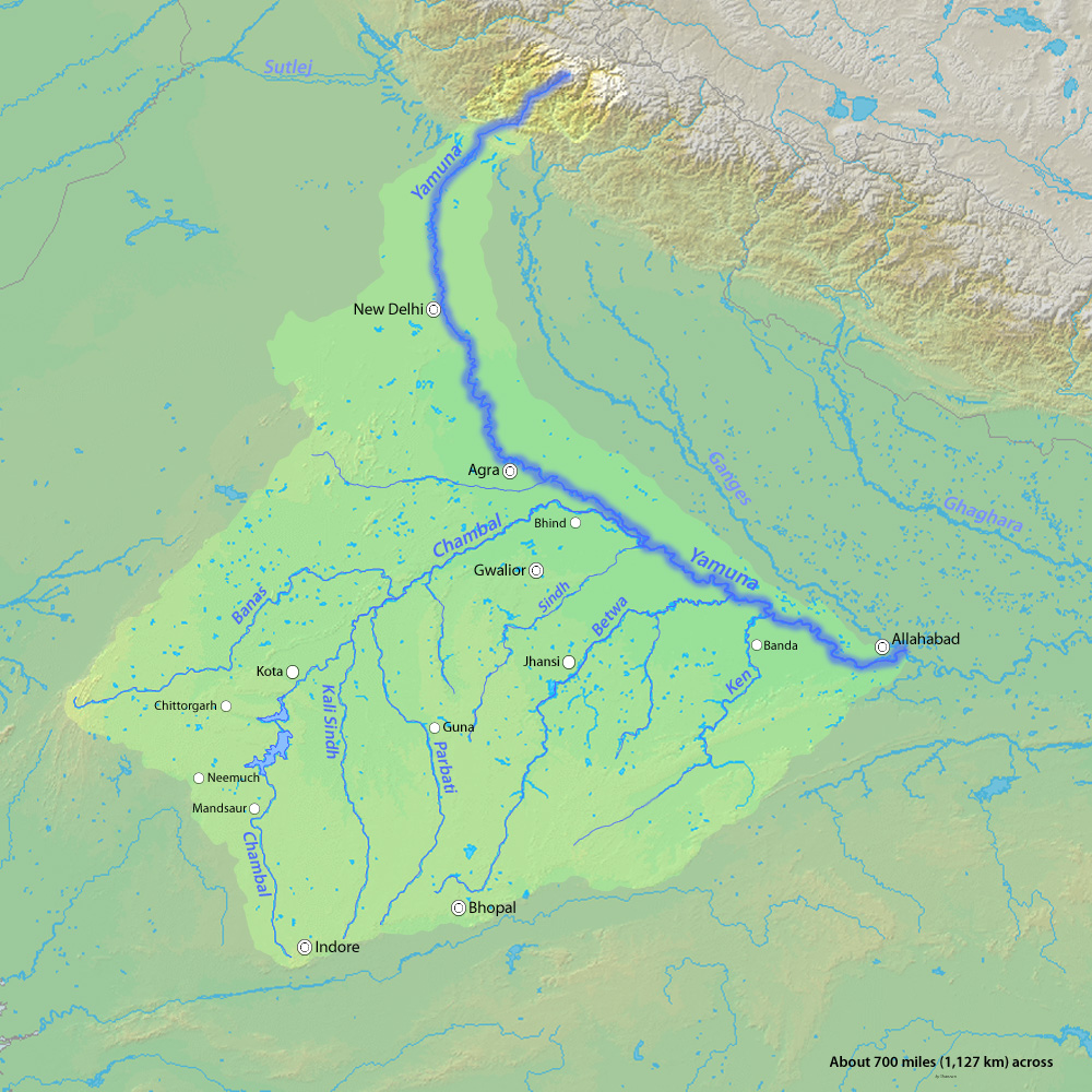 Map of the Yamuna River, a tributary of the Ganges in northern India